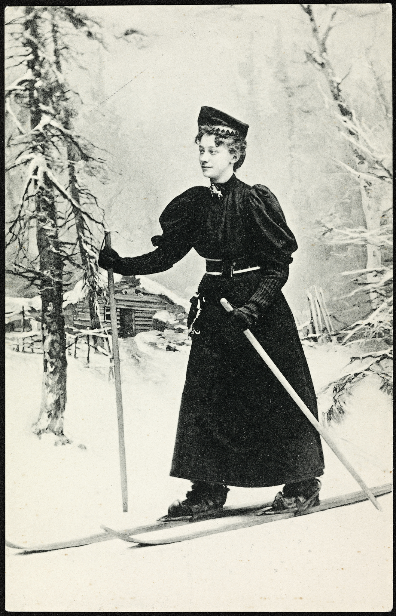 Tittel / Title: No 205. Uidentifisert kvinne på ski Beskrivelse / Description: Postkort / Postcard. Dato / Date: ukjent / unknown Fotograf / Photographer: ukjent / unknown Utgiver / Publisher: E. A. Schjörn (Christiania) Eier / Owner Institution: Nasjonalbiblioteket / National Library of Norway Lenke / Link: Bildesignatur / Image Number: blds_05863